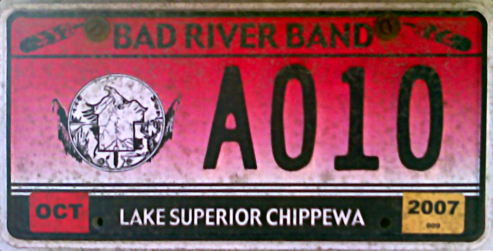 "I didn't know tribes could issue plates that were good throughout the fifty states. Maybe they can't... but this guy was driving with it anyway." The Bad River Band is a sub-group of Chippewa Indians who apparently live near Lake Superior.